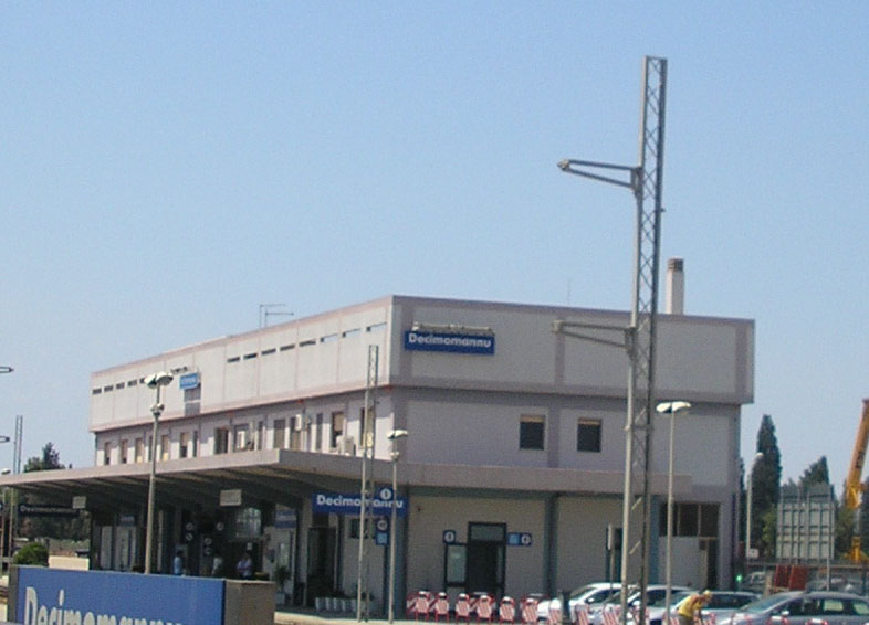 The Decimomannu railway station, in Sardinia, Italy